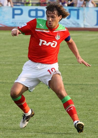 Dmitri Loskov with FC Lokomotiv Moscow.